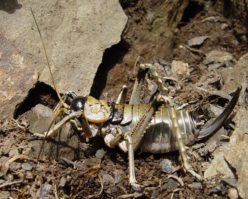 New Zealand, Orthoptera, Ensifera, Anostostomatidae